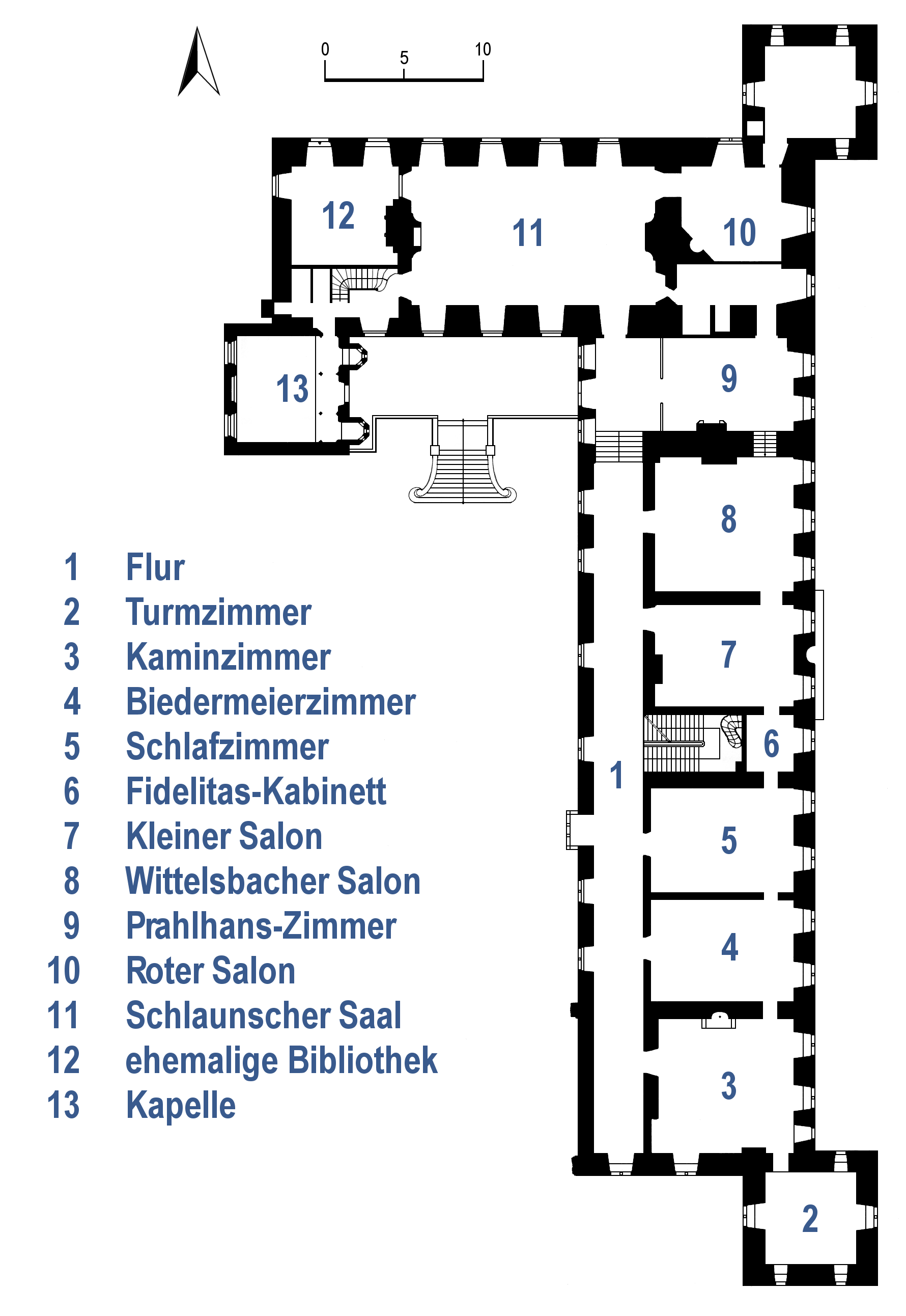 Castle of Lembeck, floor plan of the raised ground floor